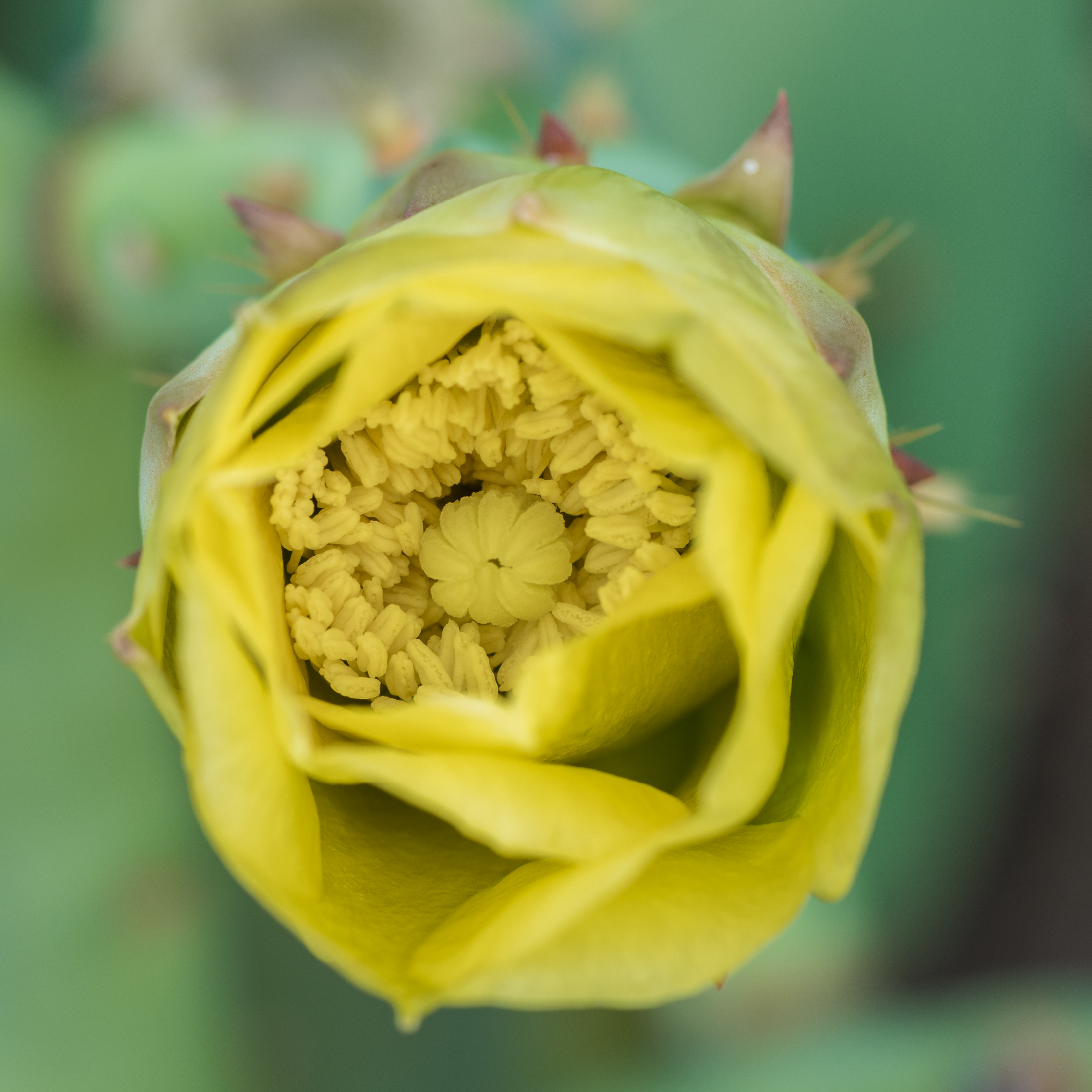 Opuntia stricta (Erect Prickly Pear). Flower bud near to hatch.